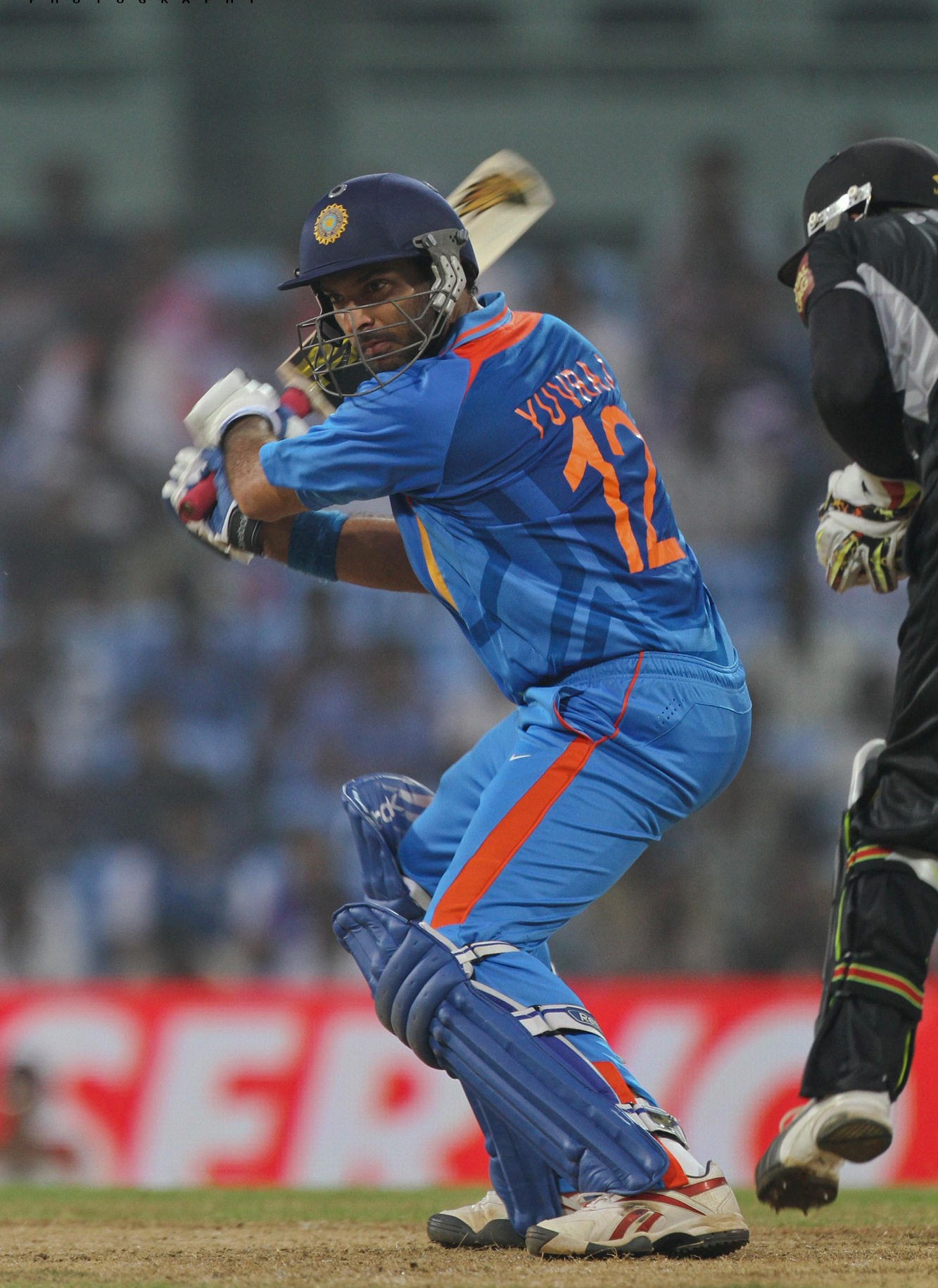 Yuvraj batting against New zealand